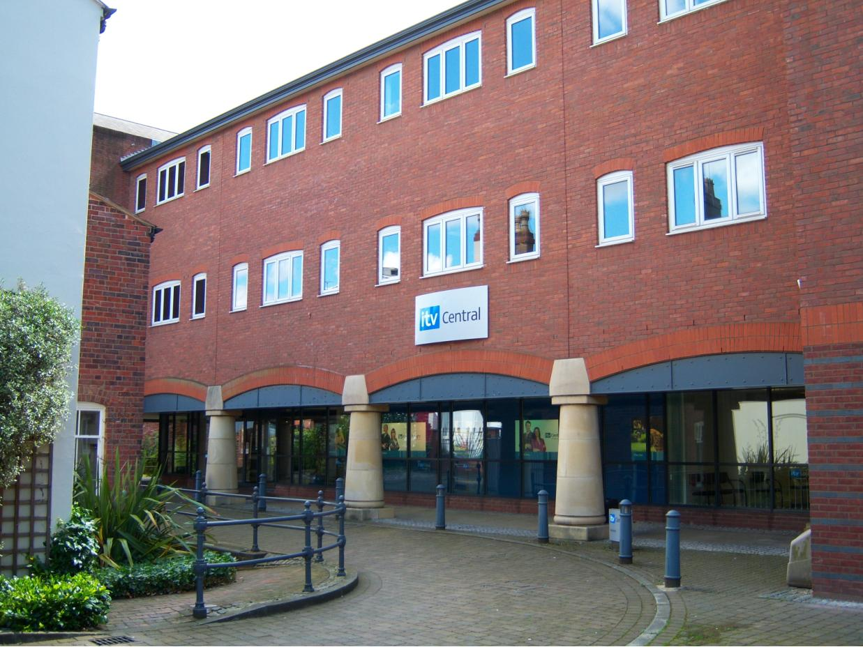 This is a picture of the ITV Central headquarters based in Gas Street, Birmingham.